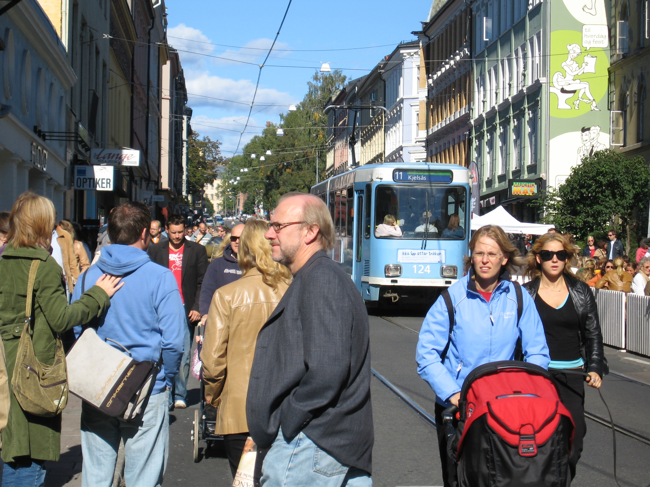 A Oslo tram struggles through the crowd at market day in Thorvald Meyers gate, Oslo. 17th September 2005.